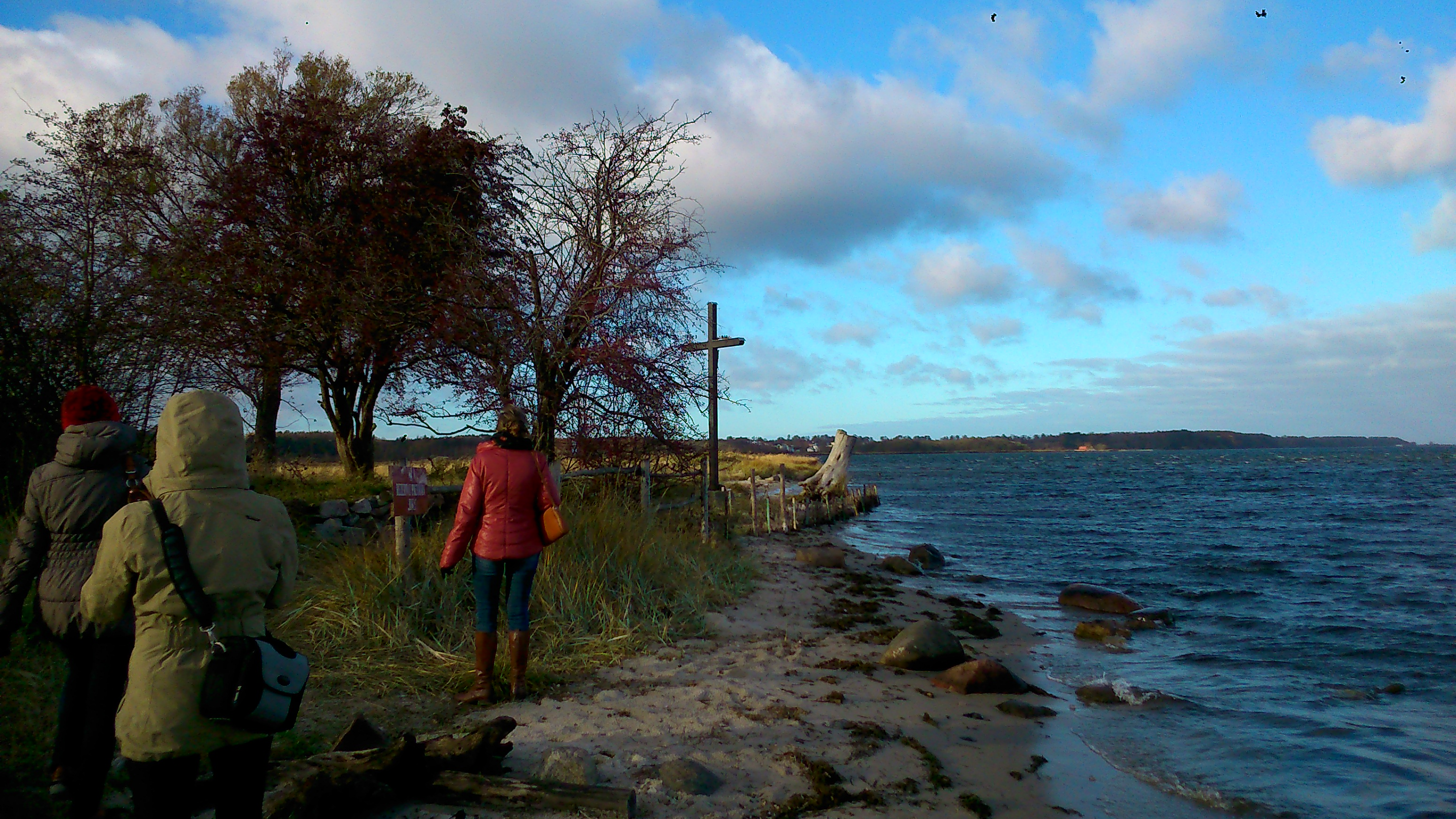 Nature Reserve "Beka" on shore of Bay of Puck, Poland. Remains of village "Beka", depopulated in 60-ties of XX century.